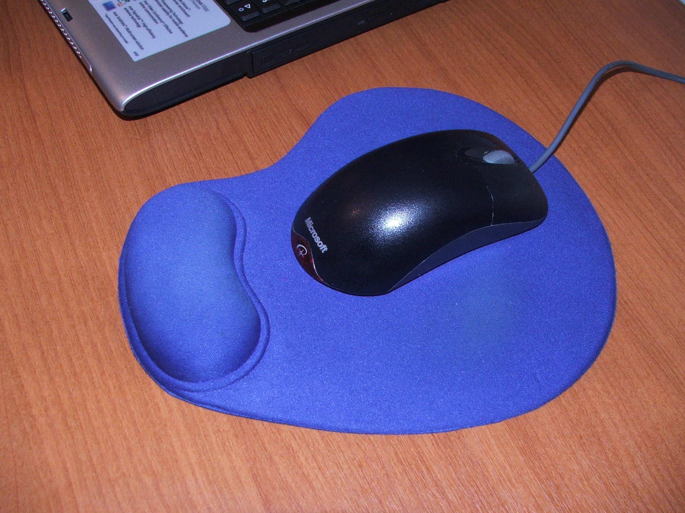 MousePad with silicone gel and wrist rests.